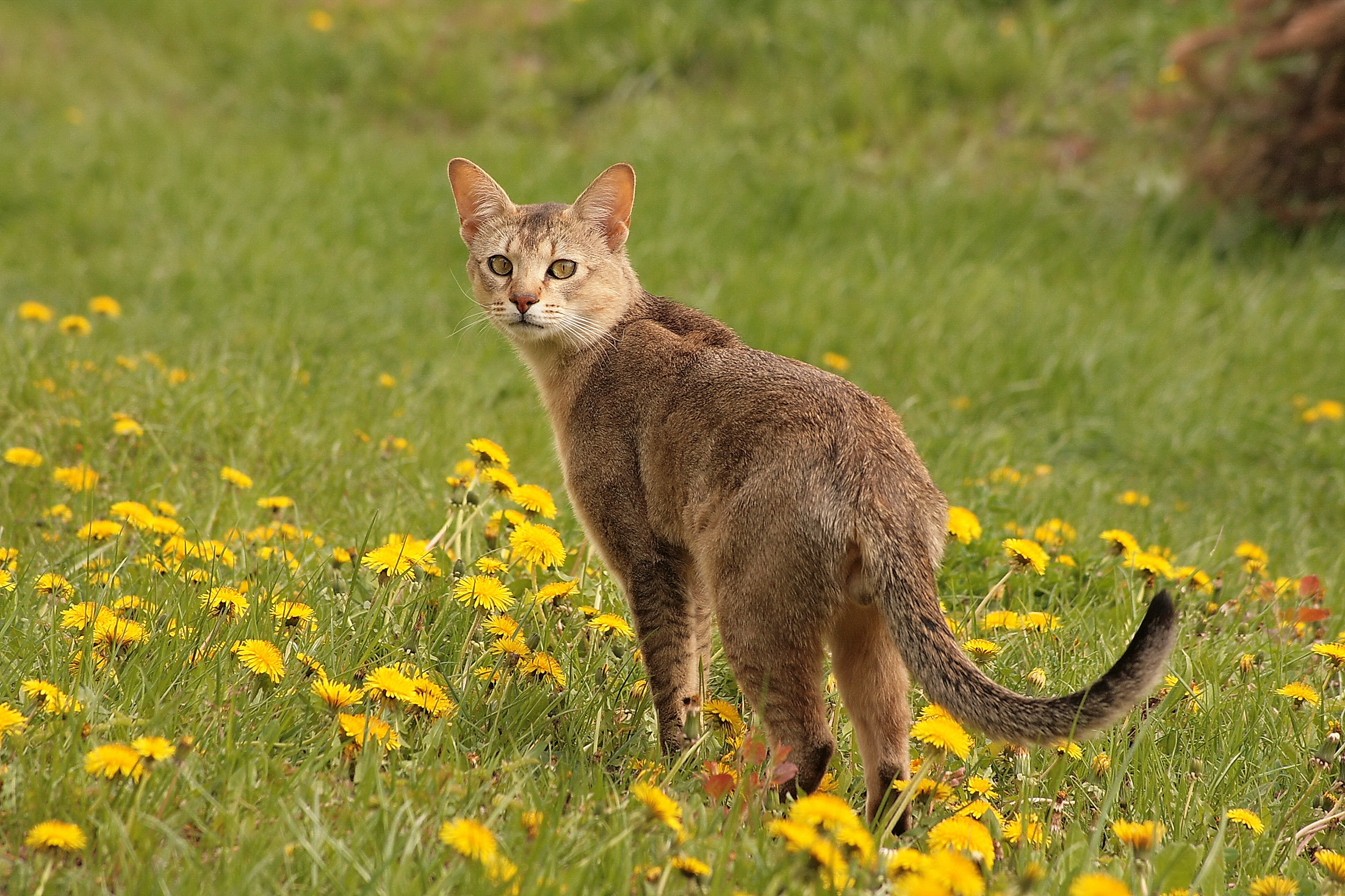 Abicatz Zamphyr